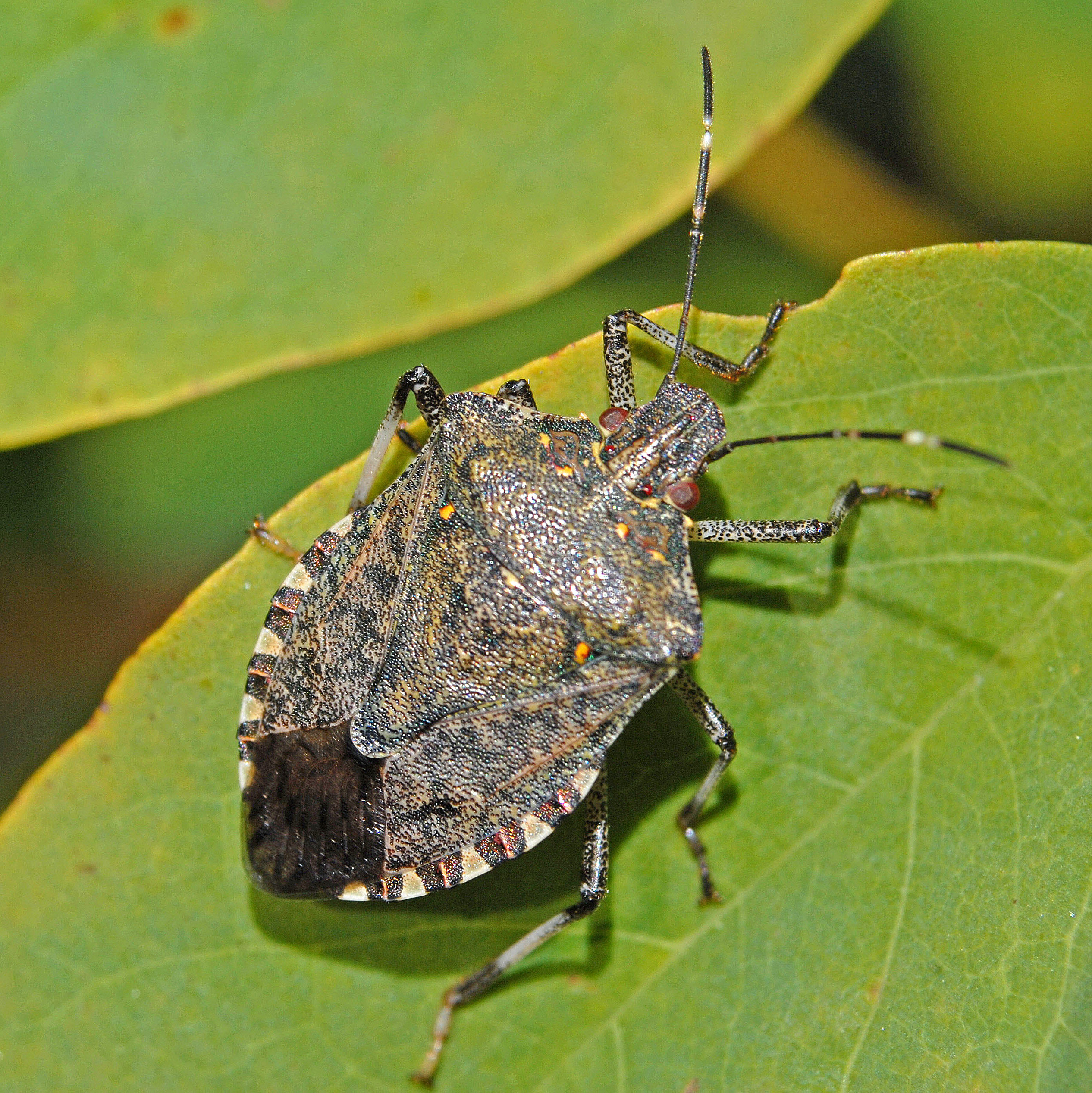 Halyomorpha halys. Adult